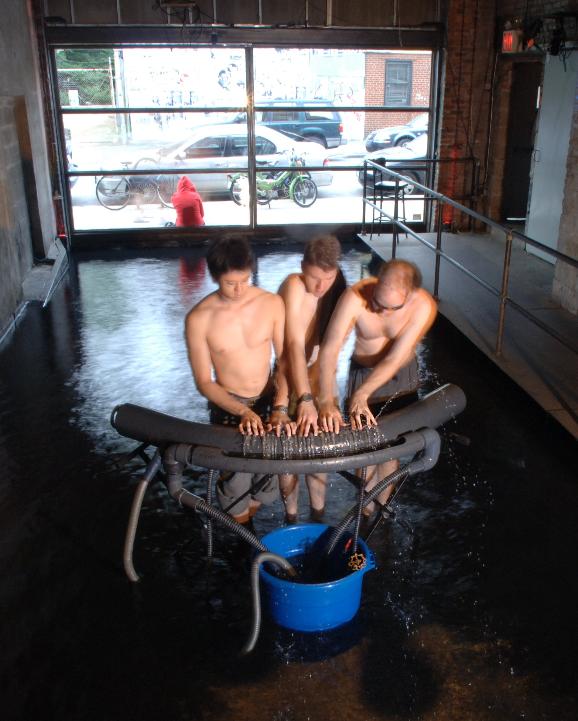 Hydraulophone concert performance at NIME 2007, New York, New York, June 9th